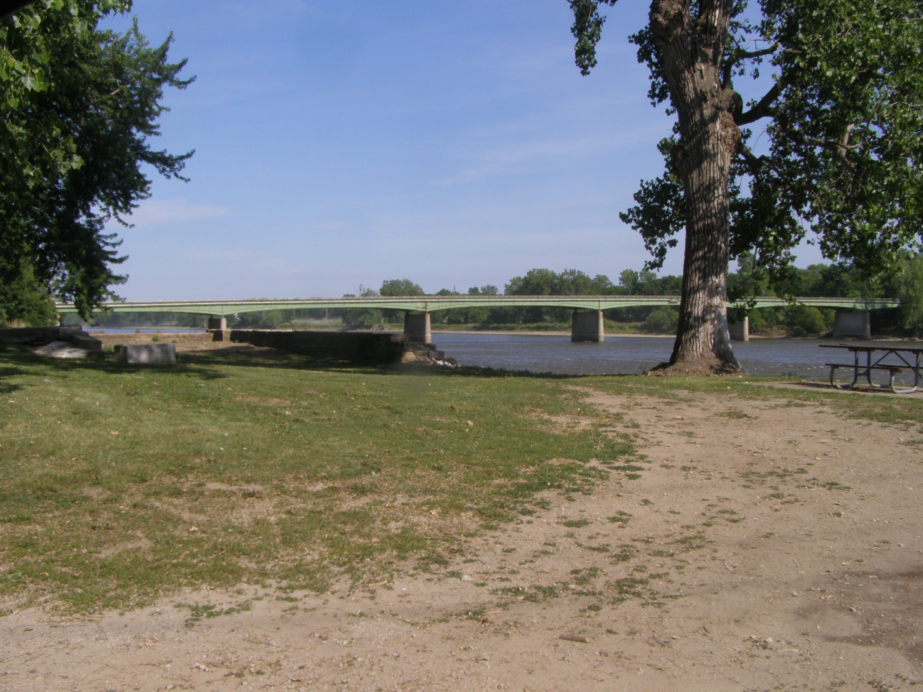 Bonaparte City Park Band shell, Bonaparte, Iowa. On the left side of the photo is Des Moines River Lock No. 5, which is individually listed on the National Register of Historic Places and included as a contributing property in the Bonaparte Historic Riverfront District.